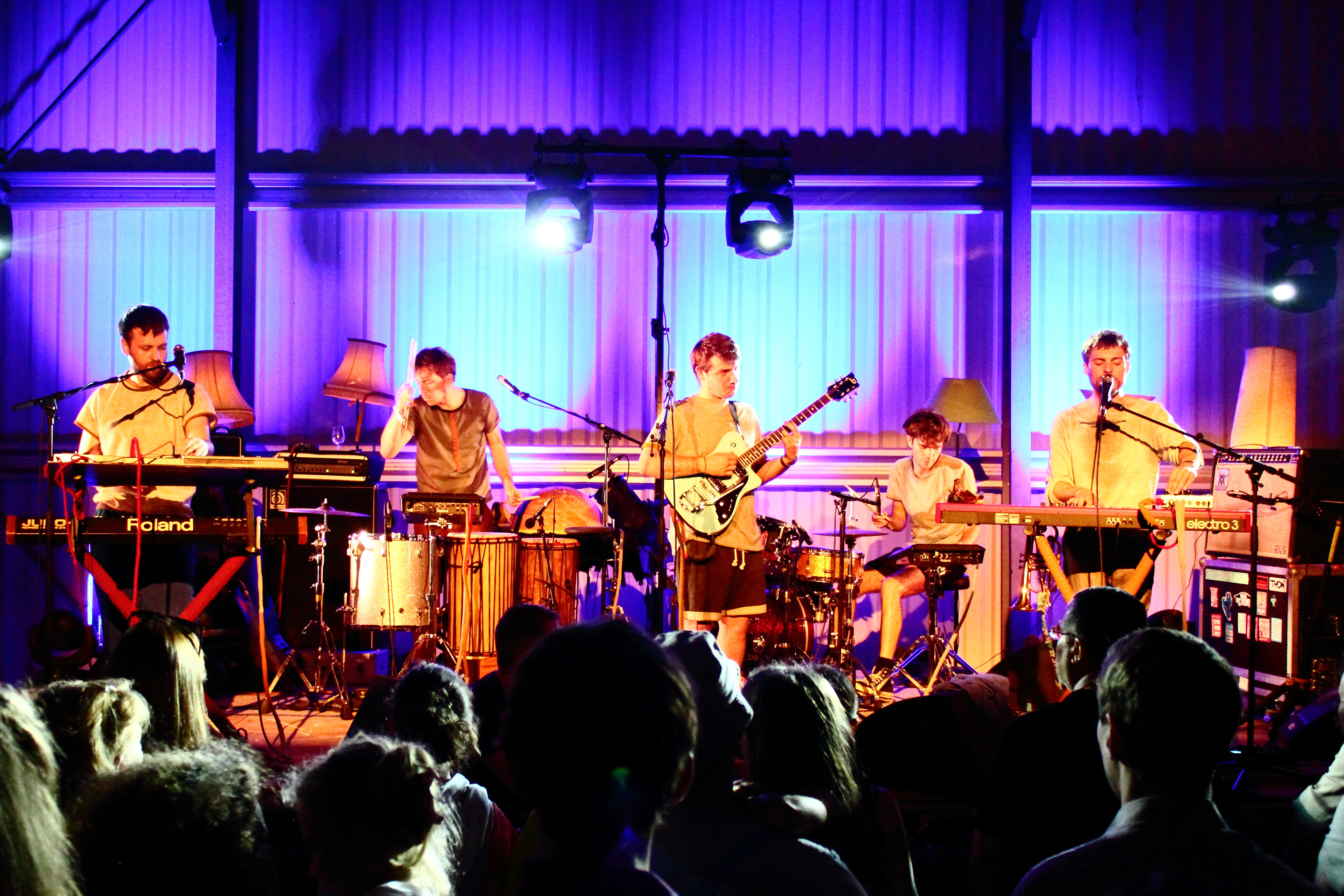 François & the Atlas Mountains performing in 2014 Concert de François & The Atlas Mountains pour le festival Le Son du Vignoble #3 - Beaumont, juin 2014. Flickr Tags: Festival Musique Music Scène Stage Live Concert Show Electro-Rock Le Son du Vignoble François et The Atlas Mountains Domaine de la Tour de Beaumont Pop rock indépendant Rock Indie. from Flickr album "Le Confort Moderne" by Xi WEG from Poitiers, France